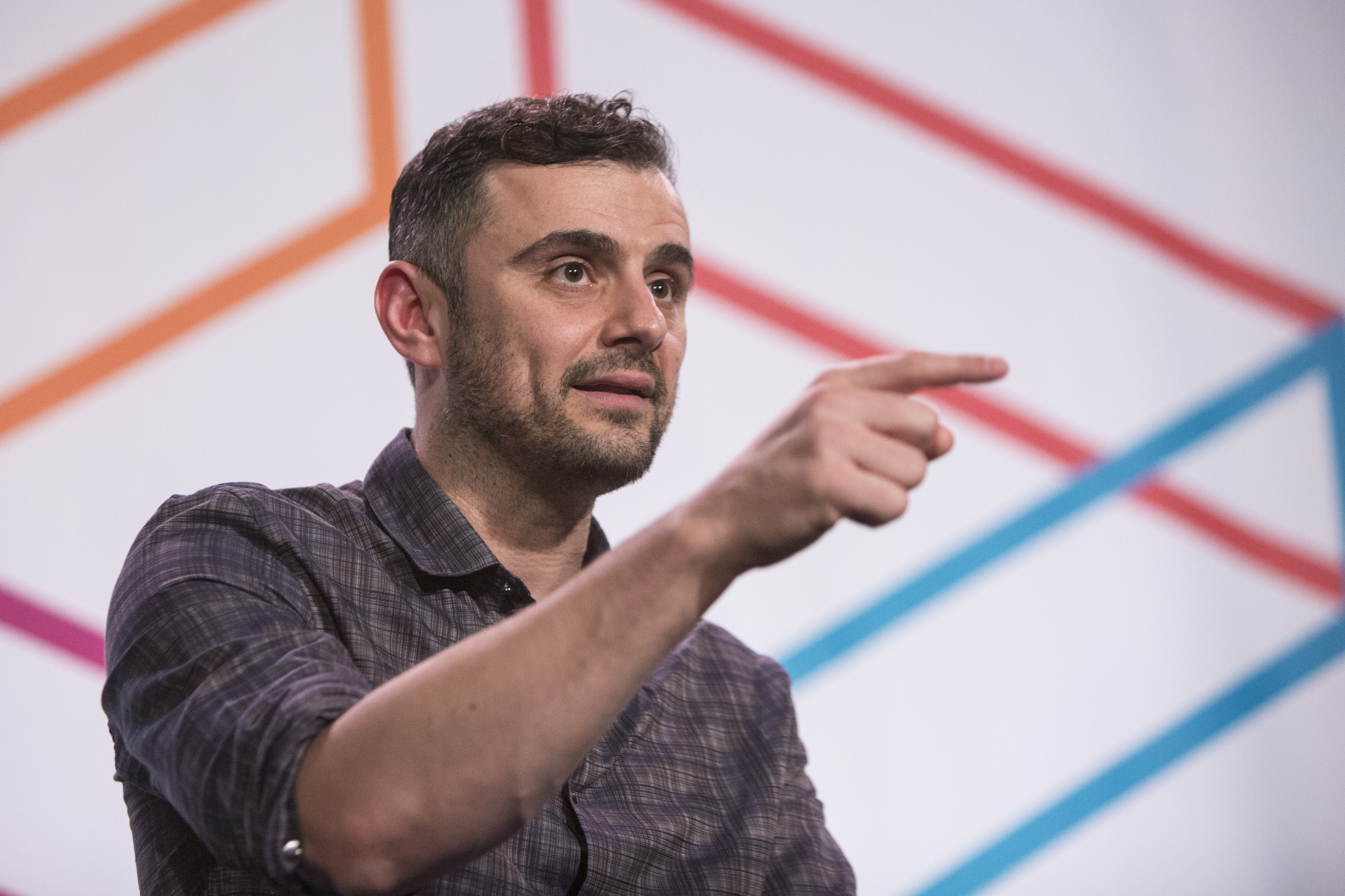 Gary Vaynerchuk, CEO at VaynerMedia for Too Good To Fail at Internet Week HQ on Day 2 of Internet Week 2015 in New York May 19, 2015. Insider Images/Andrew Kelly (UNITED STATES)